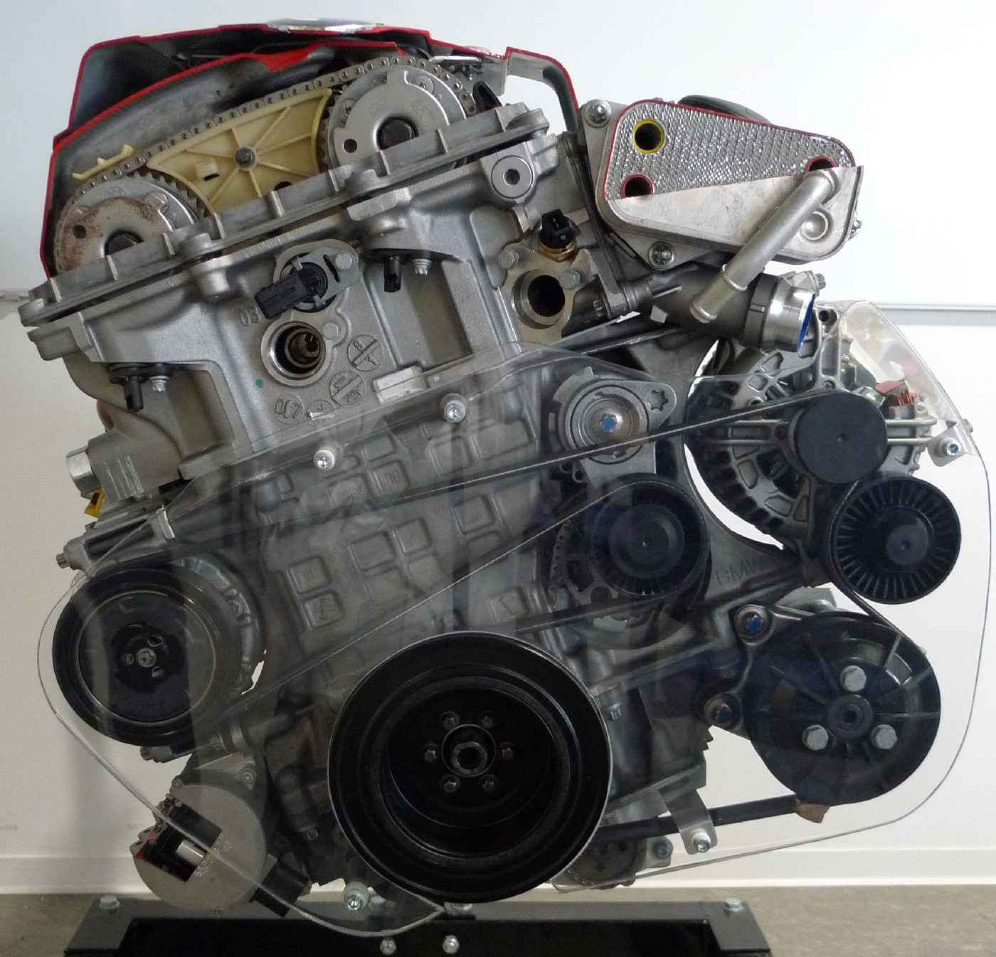 Sectional model of a BMW N52 engine, Institute of Applied Materials – Materials Science (IAM–WK), Karlsruhe Institute of Technology (KIT)